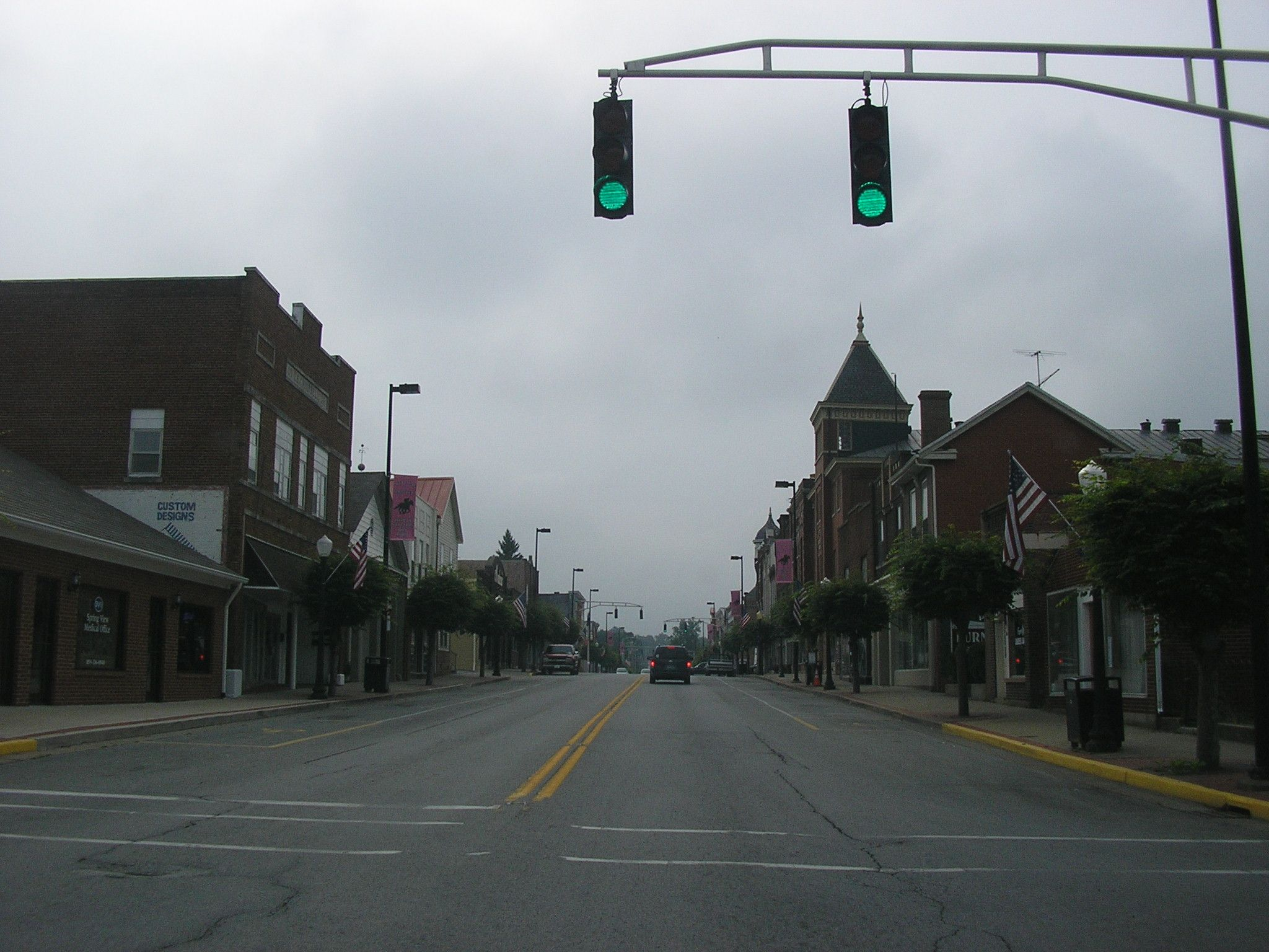 Downtown Springfield, Kentucky, USA